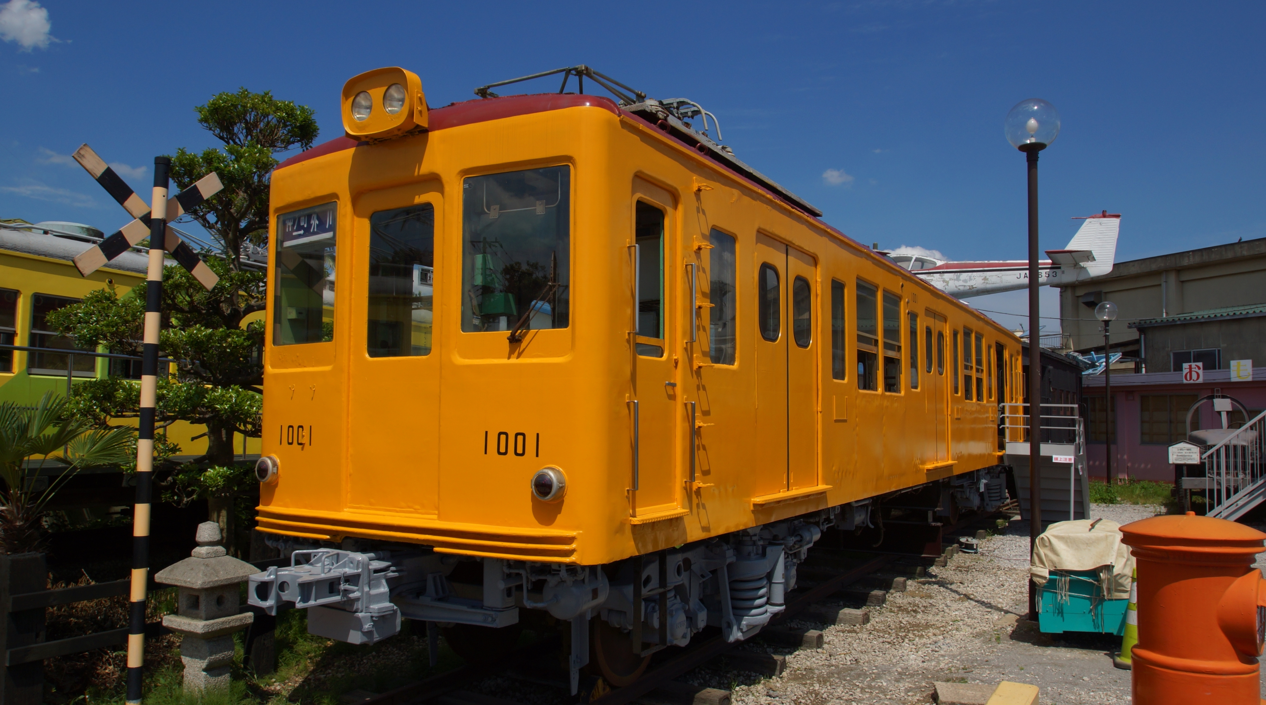 Former Choshi Electric Railway 1000 series EMU car DeHa 1001 preserved at the Showa-no-Mori Museum in Matsudo, Chiba Prefecture, Japan